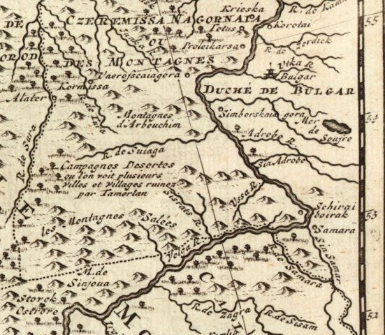 Map of Muscovy. Fragment - The Principality of Bulgar.